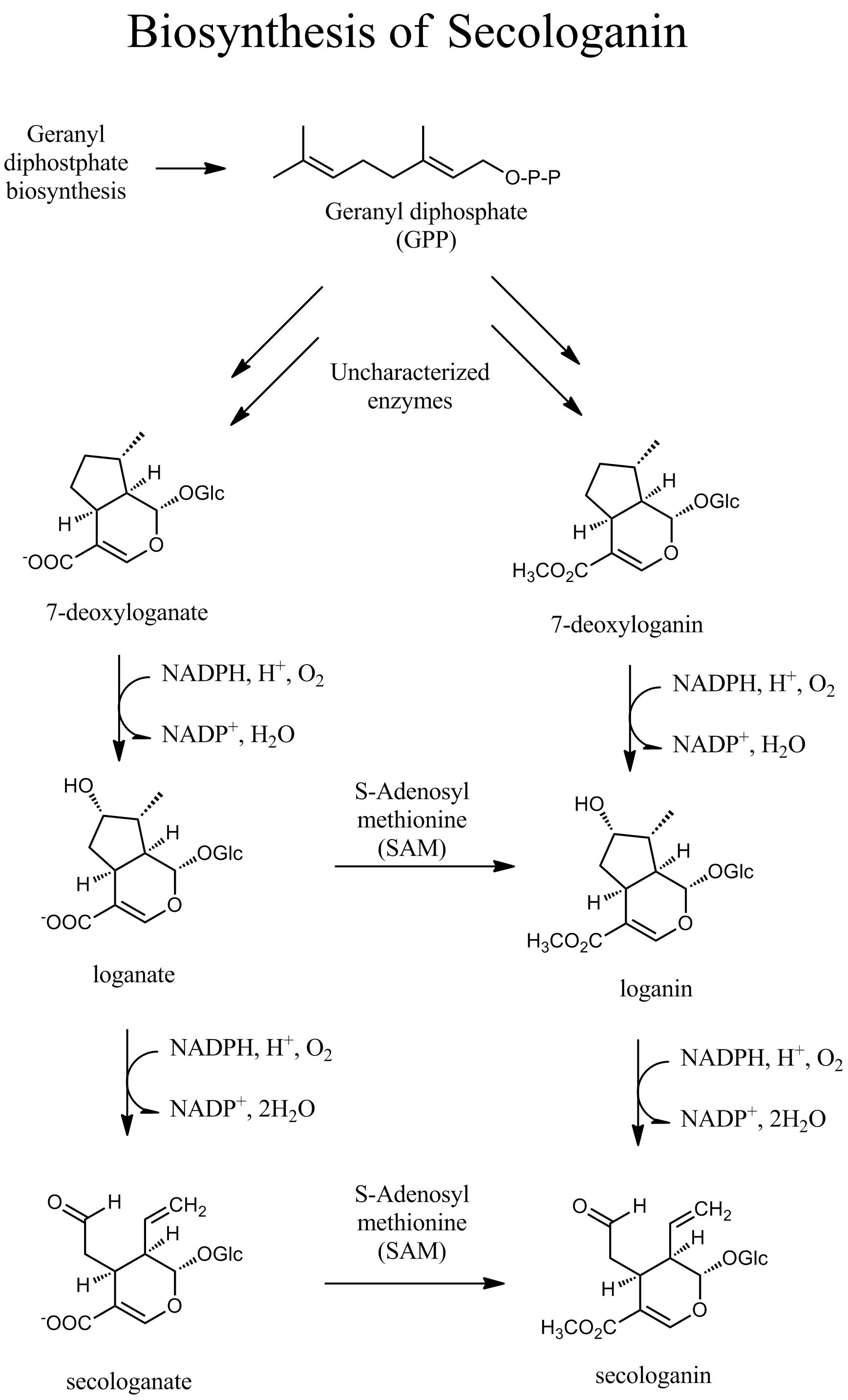 Biosynthesis of secologanin